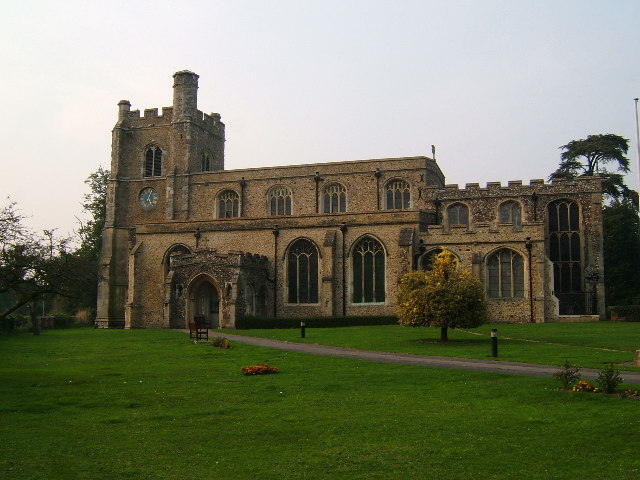 St Marys Church, Bocking Churchstreet, Braintree. Picture taken looking north within the grounds at the church which occupies an elevated position.